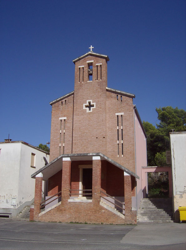 Parish church in Ubli on the island of Lastovo, Croatia, Europe